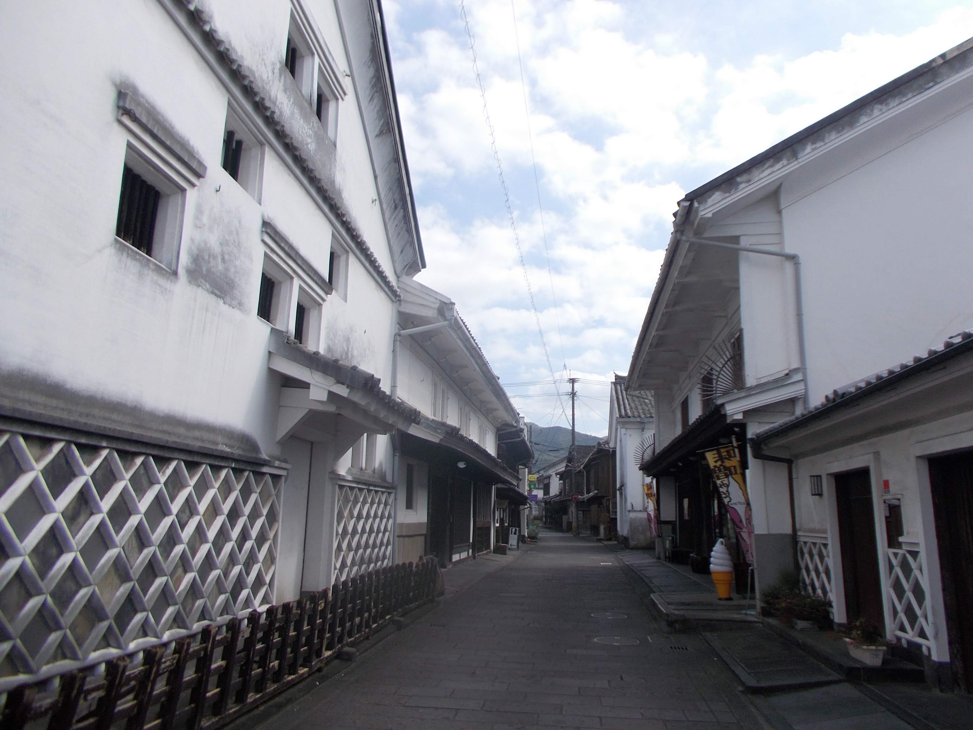 Kuge no Okura, Usuki, Oita, Japan. It is still being used for the Kuge Sake Brewery factory.